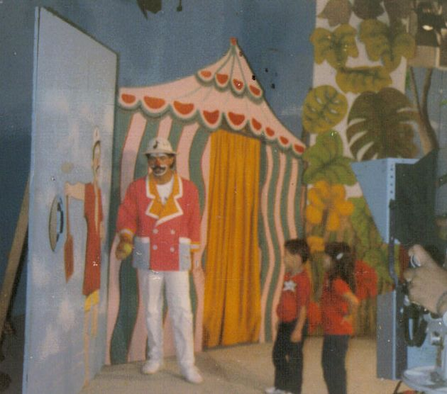 El show de "Remi" - 1988